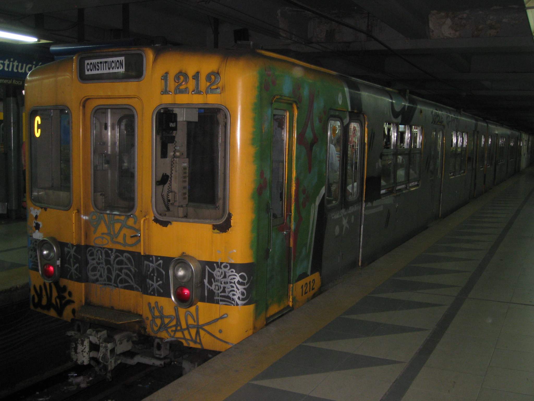 Fleets on subway line C in Buenos Aires (former used on Higashiyama line in Nagoya, Japan.)